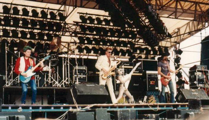 Hawkwind, performing at the Monsters of Rock festival, Donington Park, 1982 Photo: Andrew King